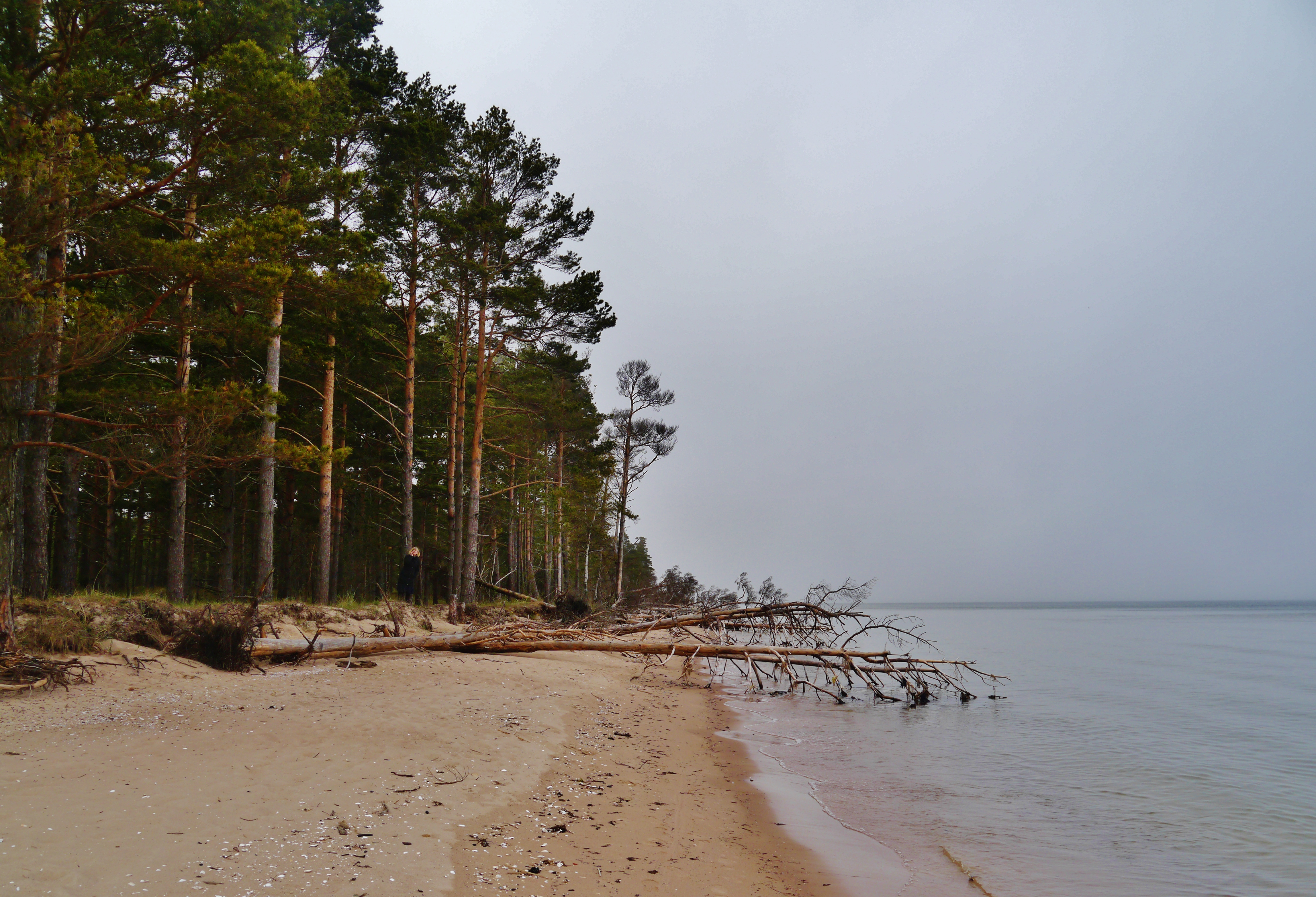 Cape Kolka near Kolka, Latvia